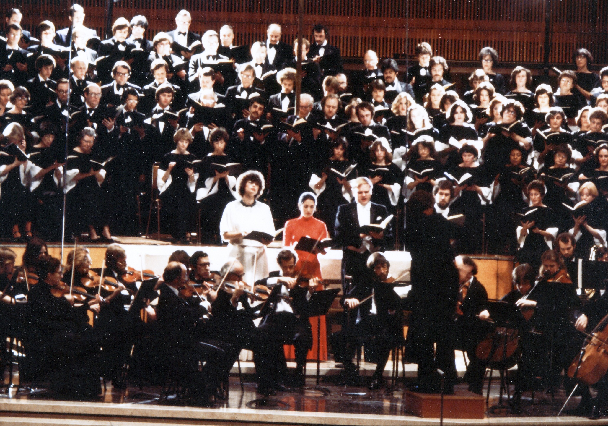 Masterworks Chorale - featuring Luana De Vol